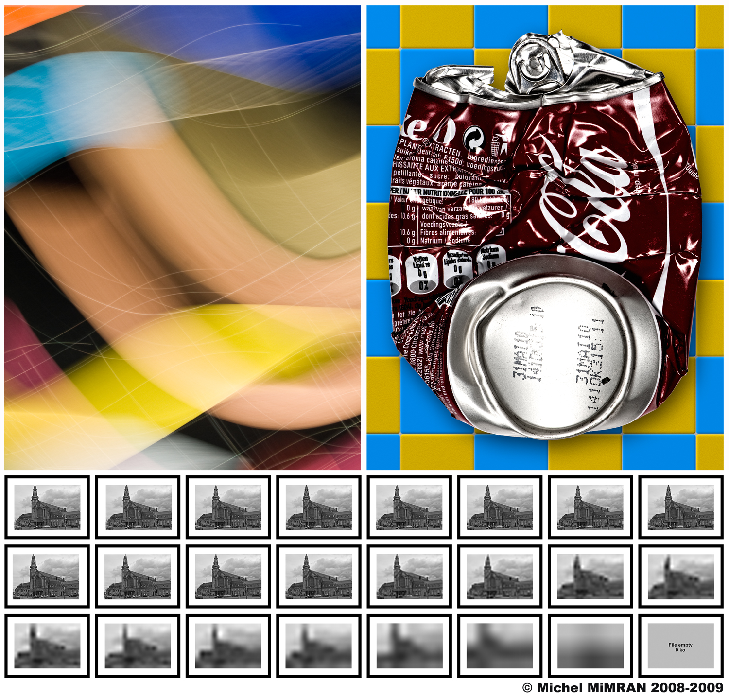 Three artistic works of Michel Mimran, all of them were exhibited in Luxembourg, at the "salon du Cal" and at his exhibition at the Credit Suisse Gallery It's a research about memory: cultural, temporal and movement.